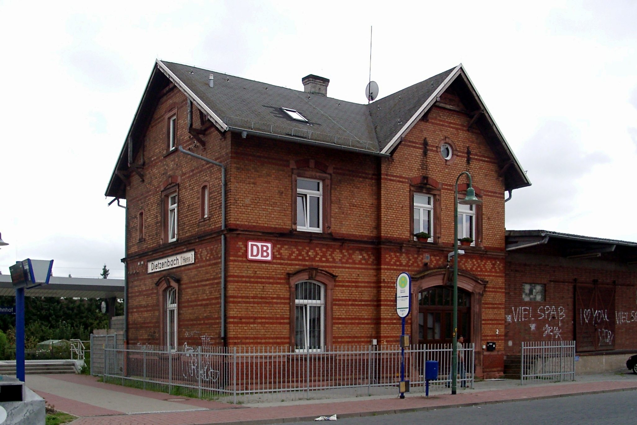 Dietzenbach, train station